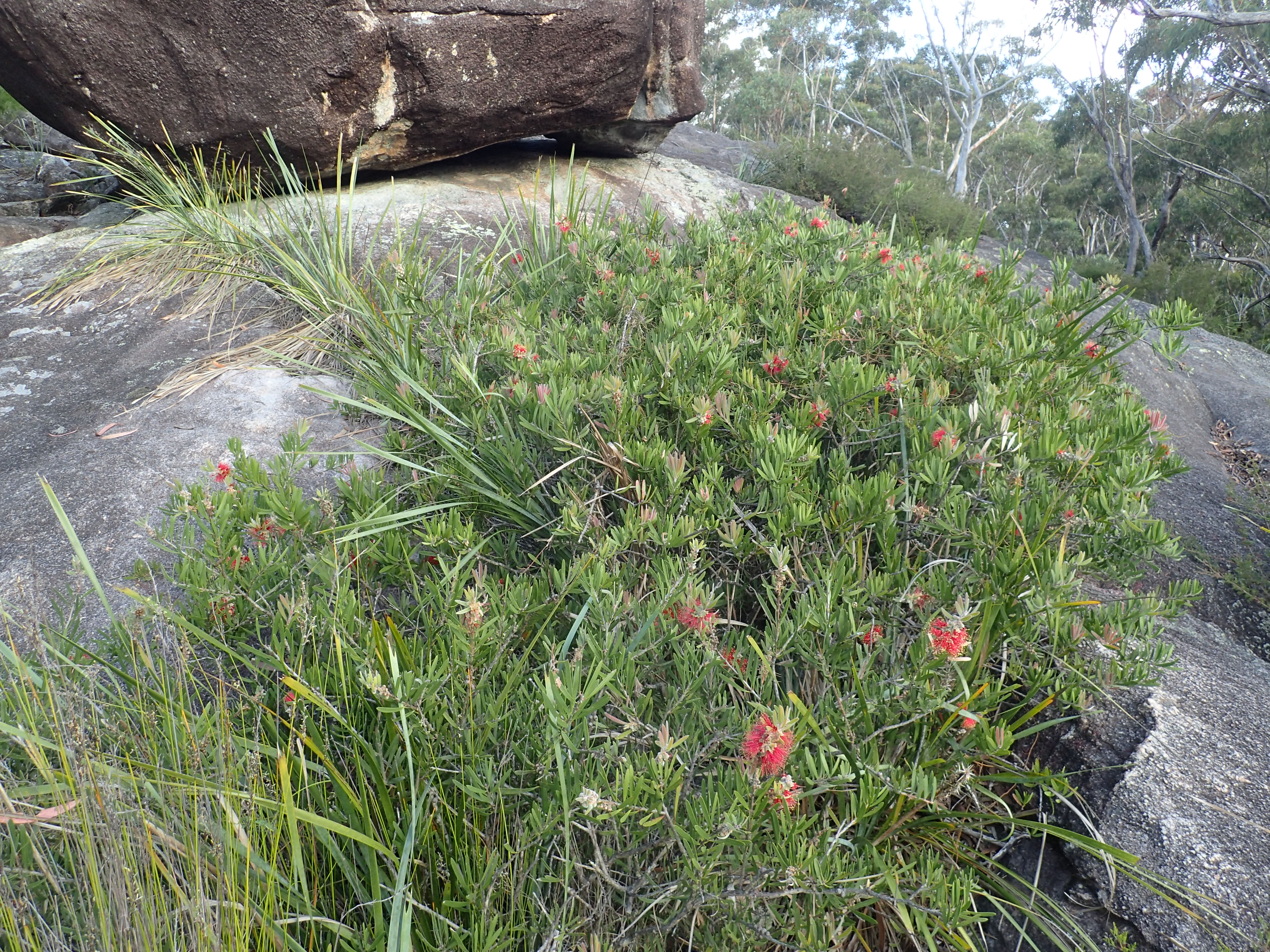 Melaleuca comboynensis growing ~ 50 below The Granites lookout in the Gibraltar Range N.P.